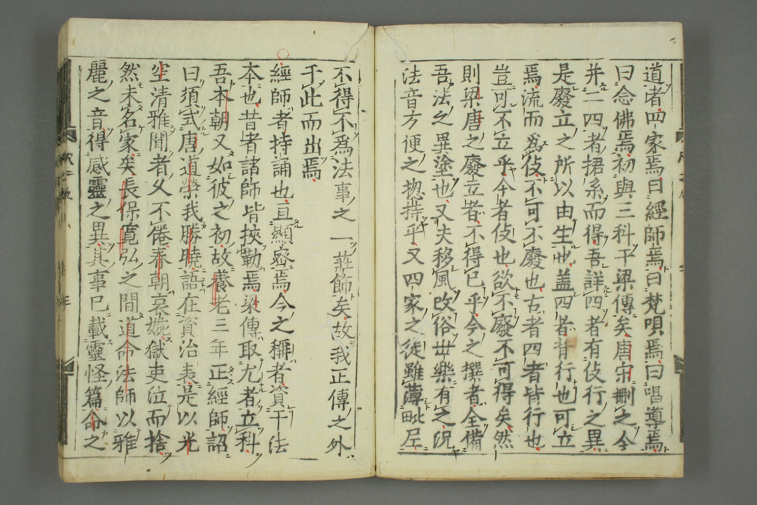 Kokan Shiren" the Genko Syakusyo" (1322, Buddhist history in Ancient and Middle Ages' Japan)